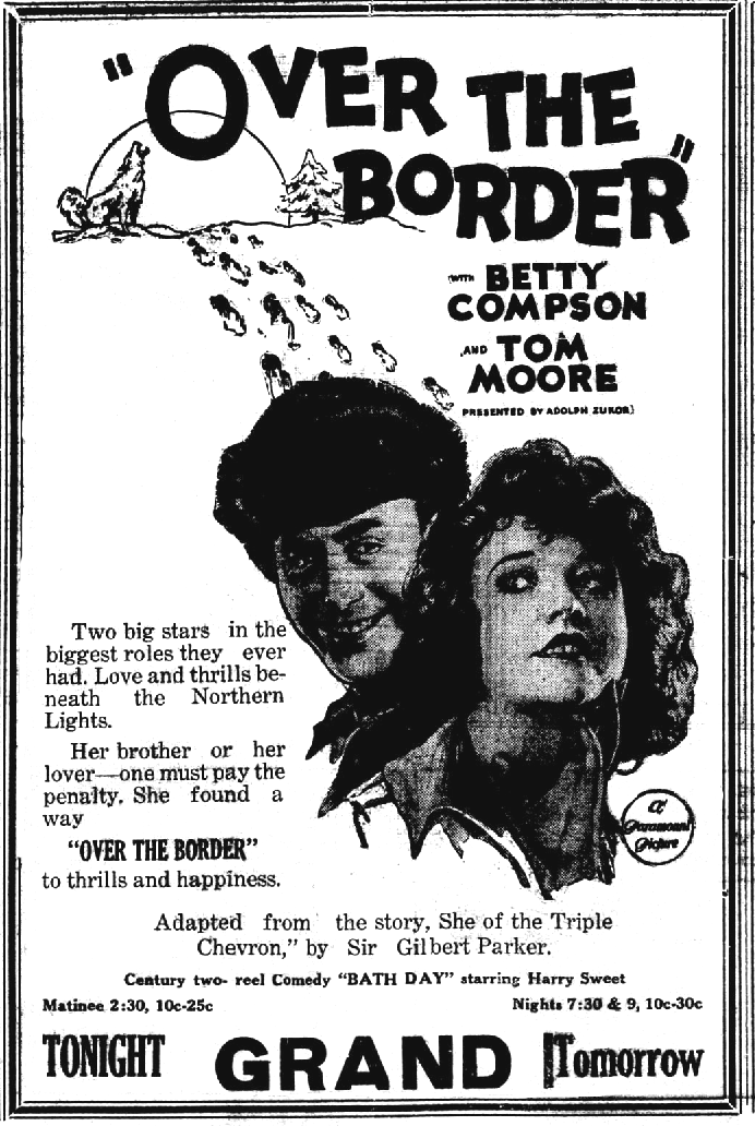 1922 newspaper advertisement for the American drama film Over the Border (1922). Cleaned up with GIMP.